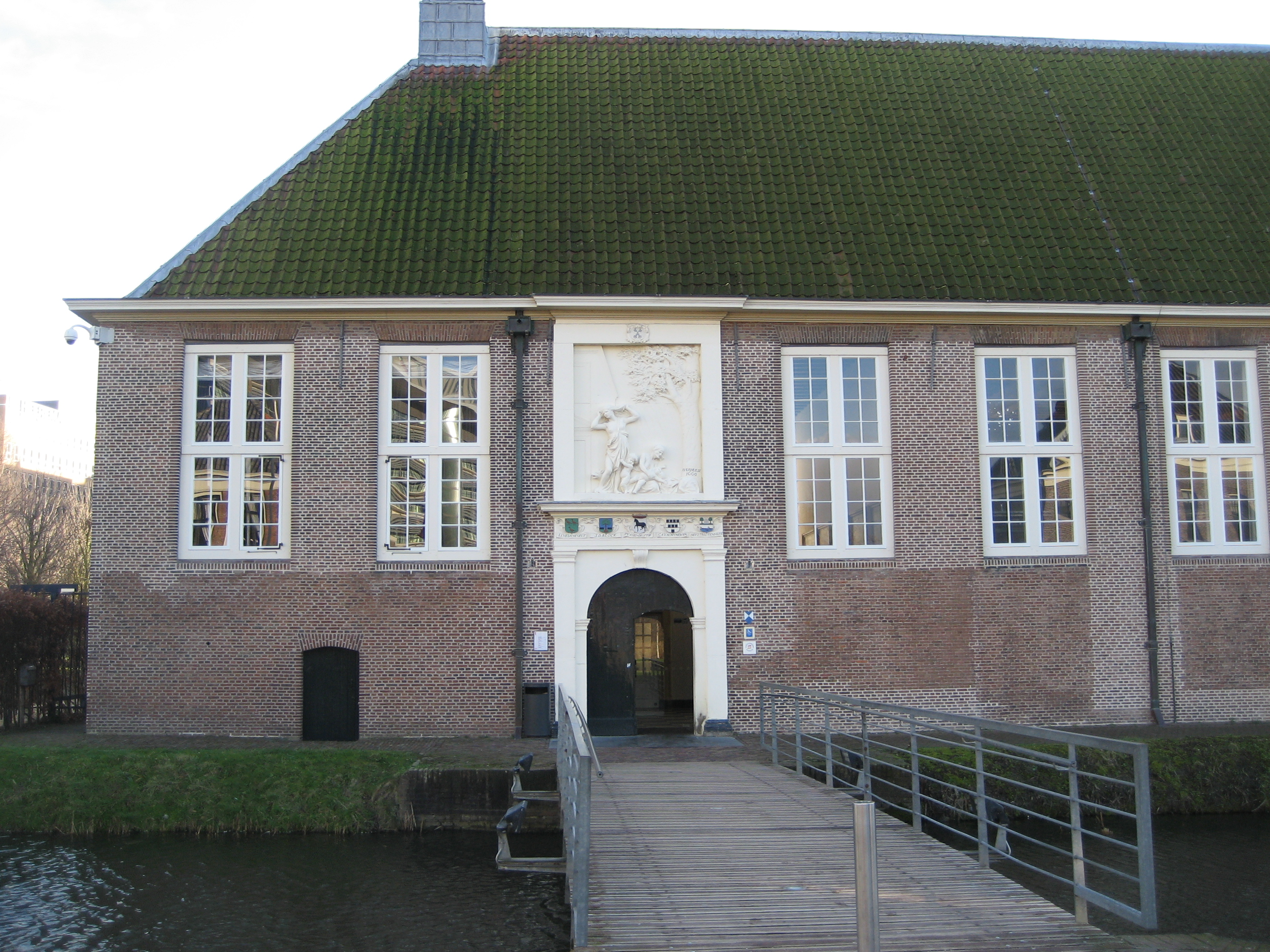 Pesthuis Leiden (2013: Entrance to Naturalis)